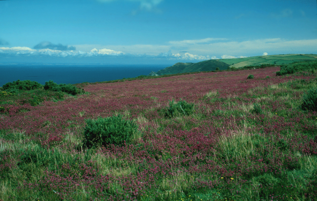 Coastel Area of the Exmoor National Park, Devon, GB